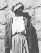 The image of American female Buffalo Soldier Cathay Williams aka William Cathay (1844-1892).